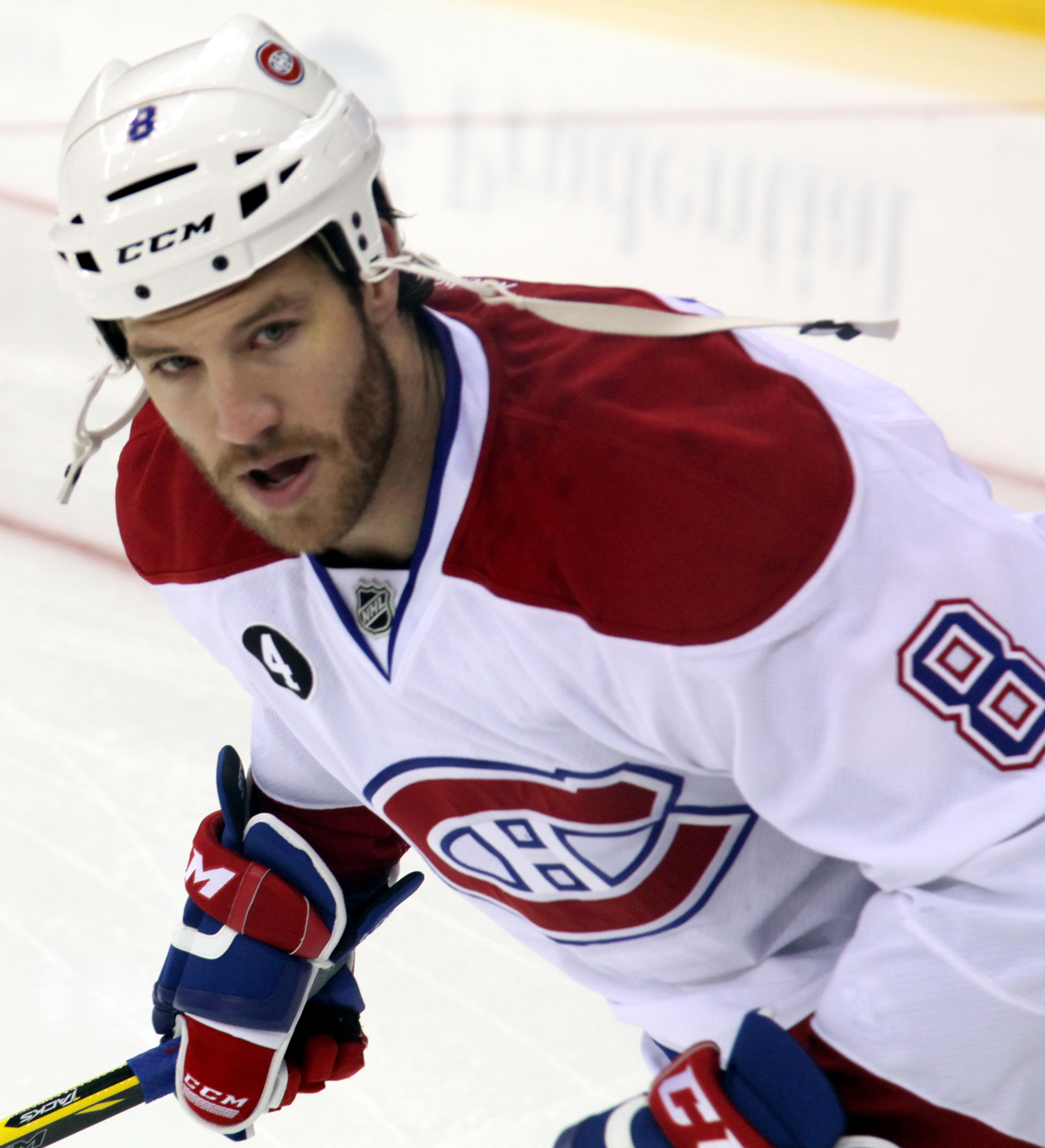 Brandon Prust in January 2015.